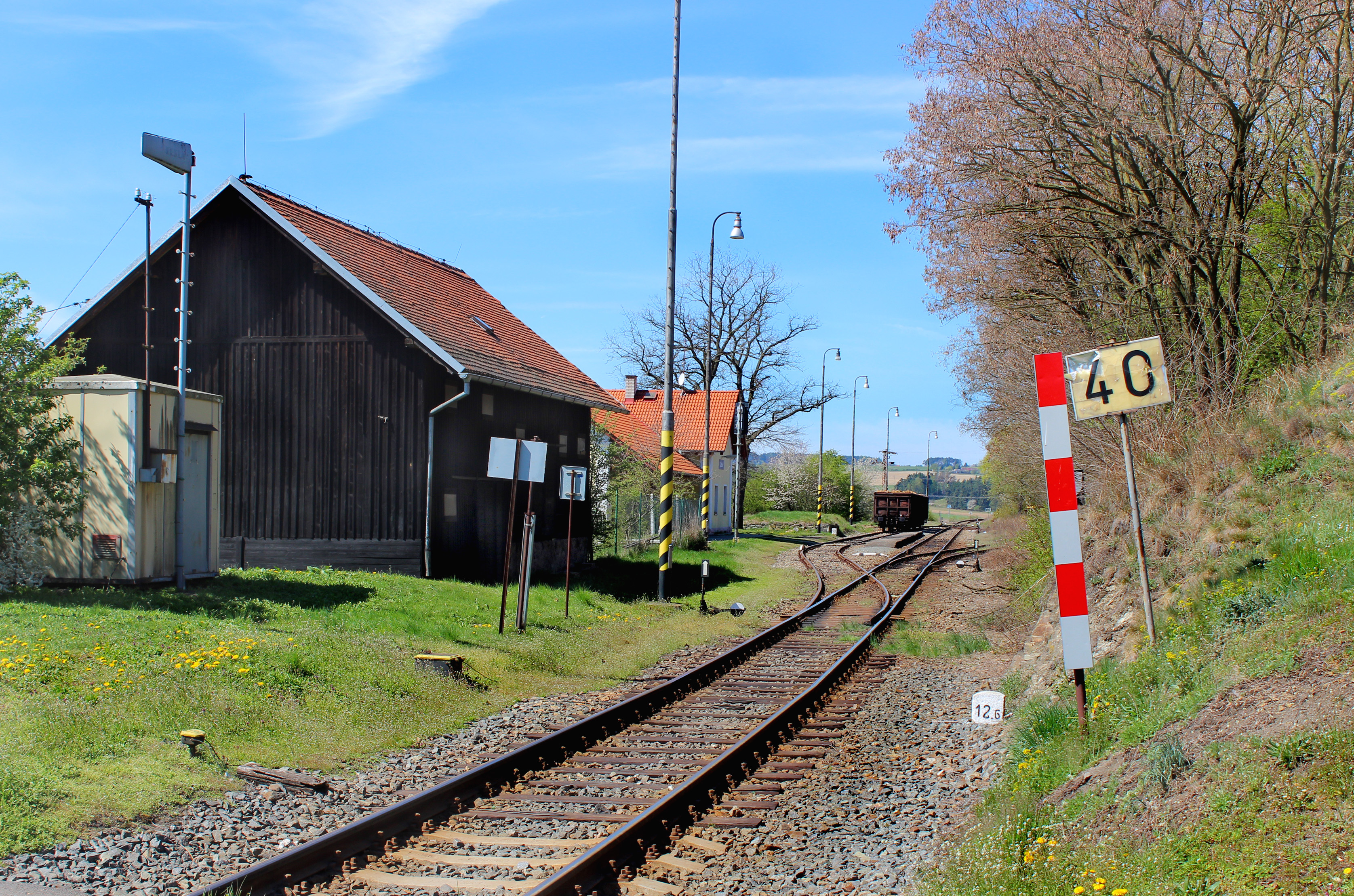 Train station in Cebiv village, Czech Republic